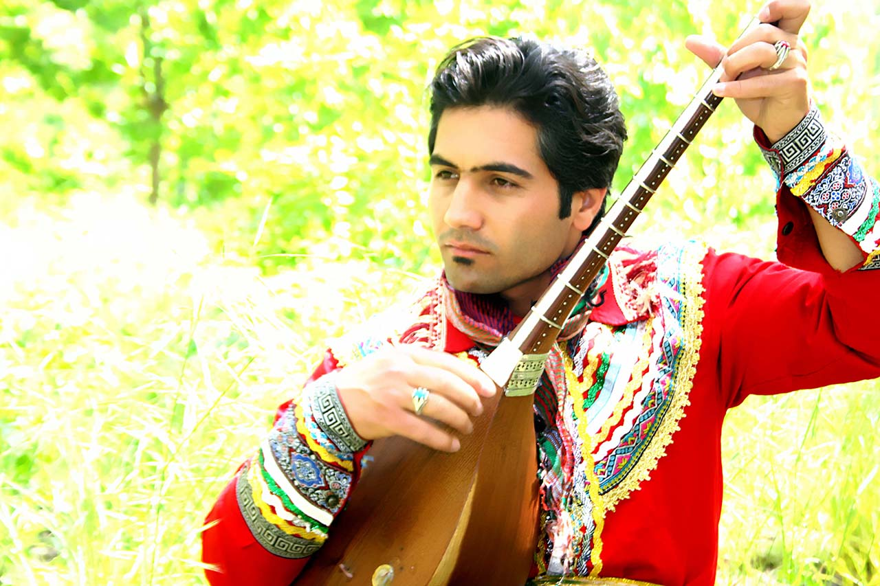 one artist for the khorasani turks